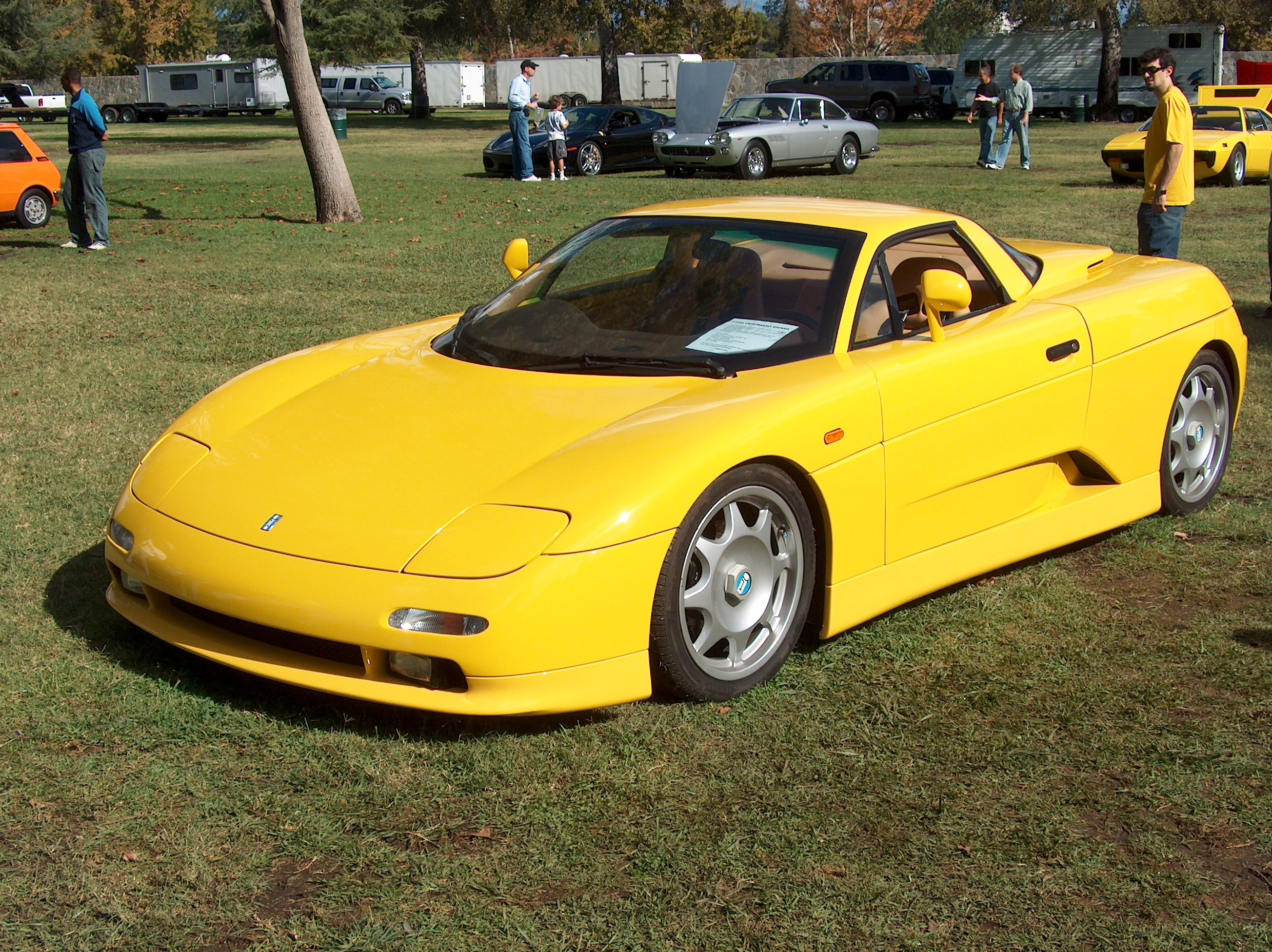 De Tomaso Guarà with a Ford V8 - made legal to drive in California USA